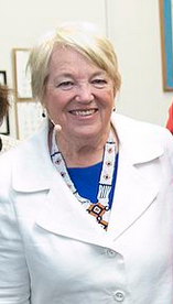 May 19, 2014. Cambrudge, MA - Volpe National Transportation Systems Center From Left: Victoria A. Budson - Executive Director, Women and Public Policy Program (WAPPP), Harvard, Kennedy School of Government, Gayle L. Goldin - Strategic Initiatives Officer, Women’s Fund of Rhode Island, also a RI State Senator, Heidi Hartmann - Ph.D., President, Institute for Women's Policy Research, Elizabeth Warren - US Senator from MA, Rachel Kaprielian Secretary of Labor and Workforce Development, MA, Congresswoman Katherine Clark (MA), and Congresswoman Rosa DeLauro (CT) all stand for a posed picture in the green room before the forum began US Department of Labor Women's Bureau in Boston hosted the DOL Regional Forum on Working Families Boston - The White House Summit on Working Families Photo by Katherine Taylor for The US Department of Labor Cropped by Exilexi